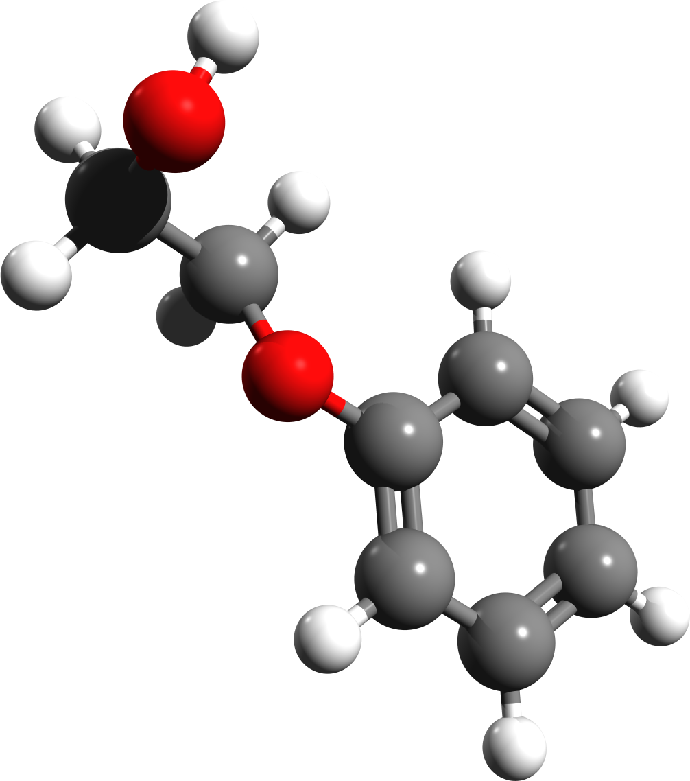 Phenoxyethanol structure